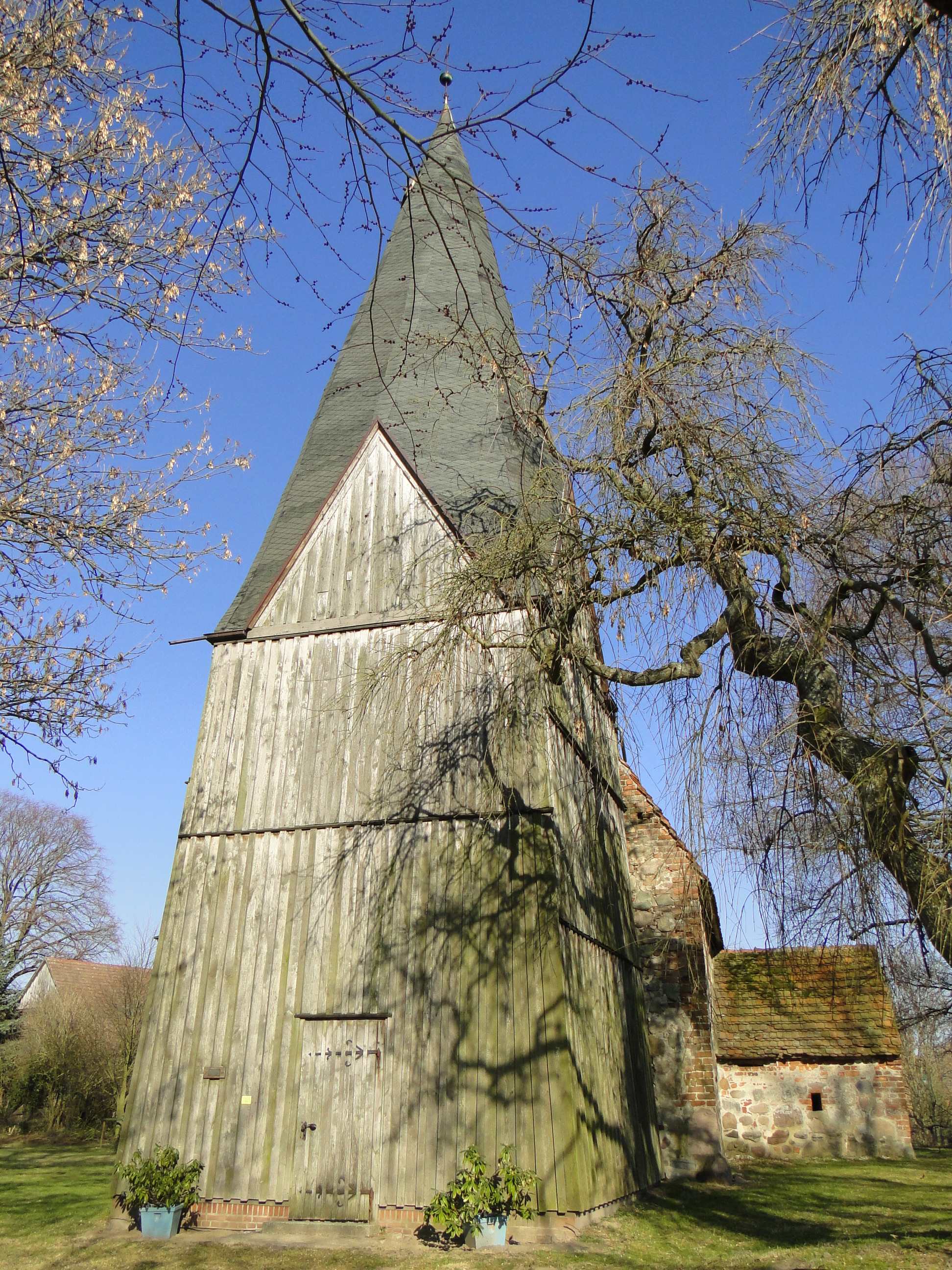 Church in Below, district Ludwigslust-Parchim, Mecklenburg-Vorpommern, Germany